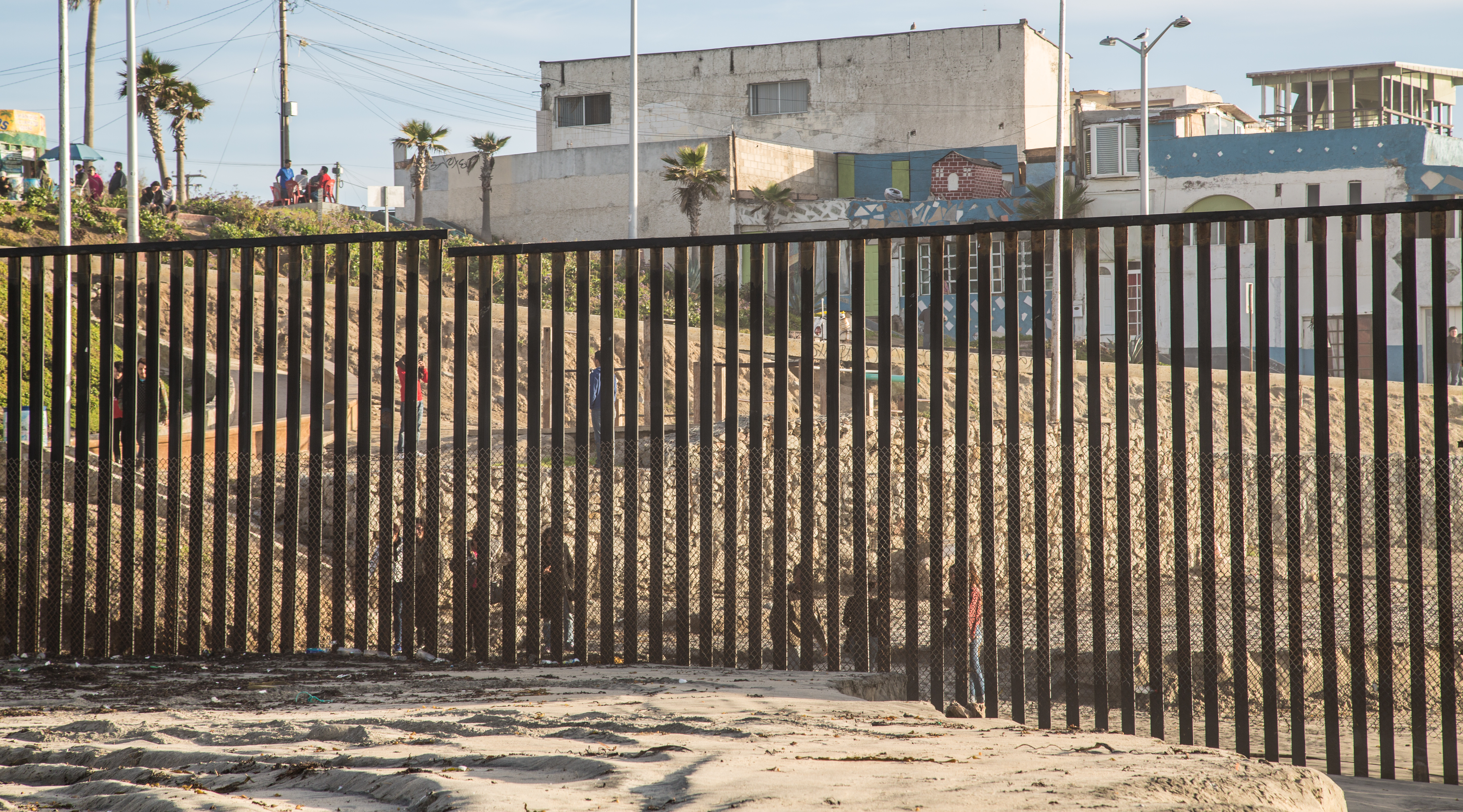 Border Field State Park / Imperial Beach, San Diego, California The fence between the USA and Mexico along the Pacific Ocean just south of San Diego.